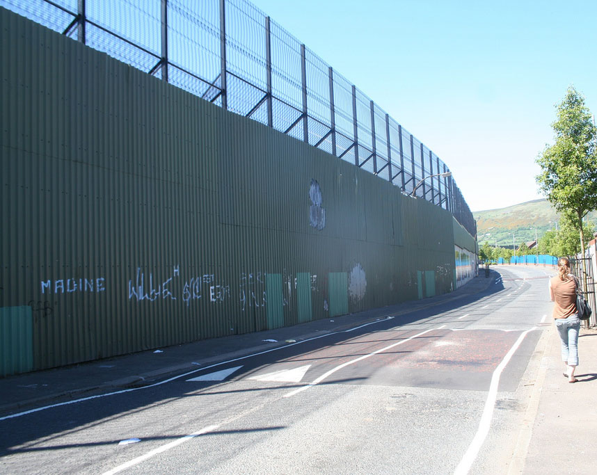 The "peace line" or "peace wall" along Cupar Way/Cepar Way in Belfast, Northern Ireland.